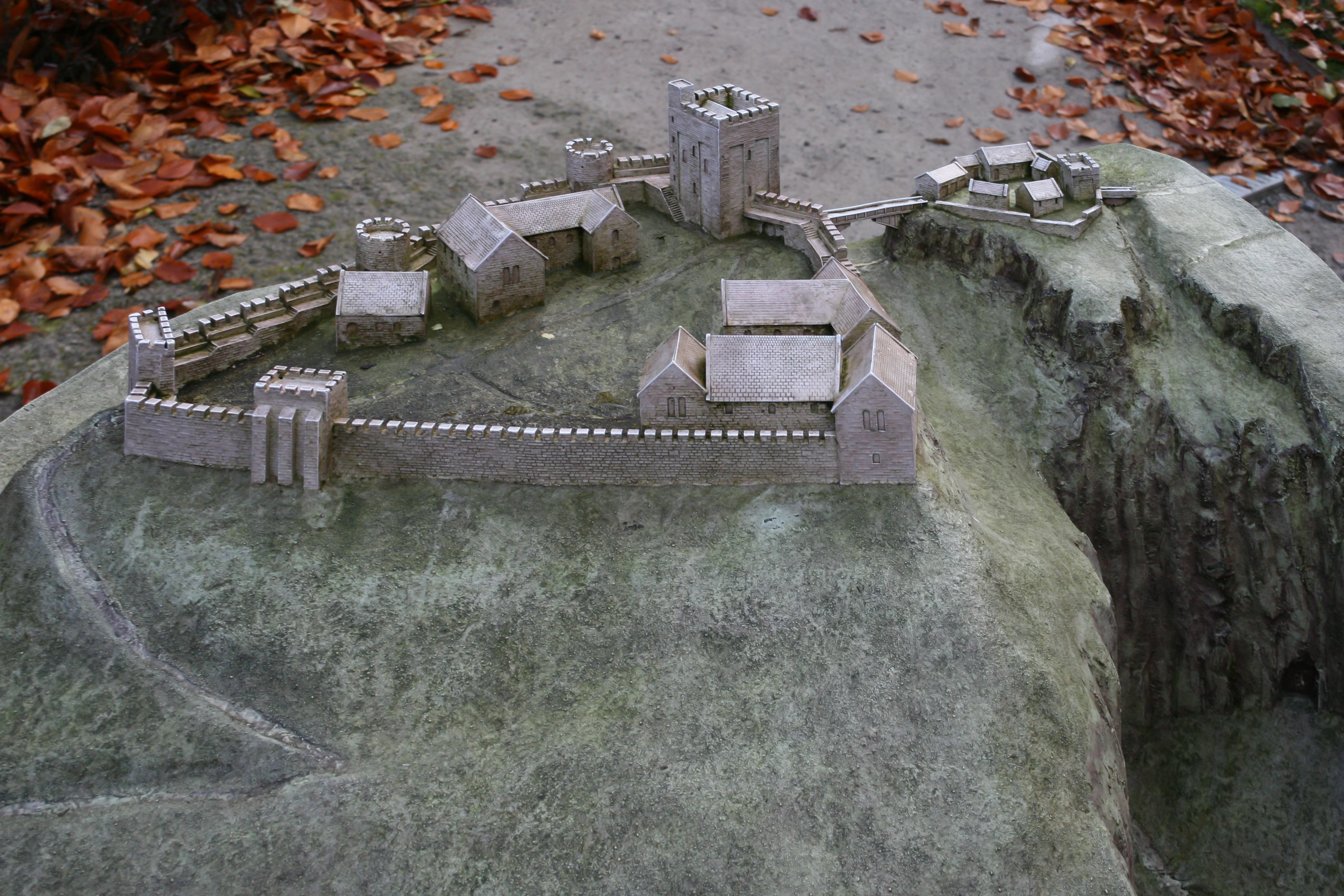 Model of Peveril Castle